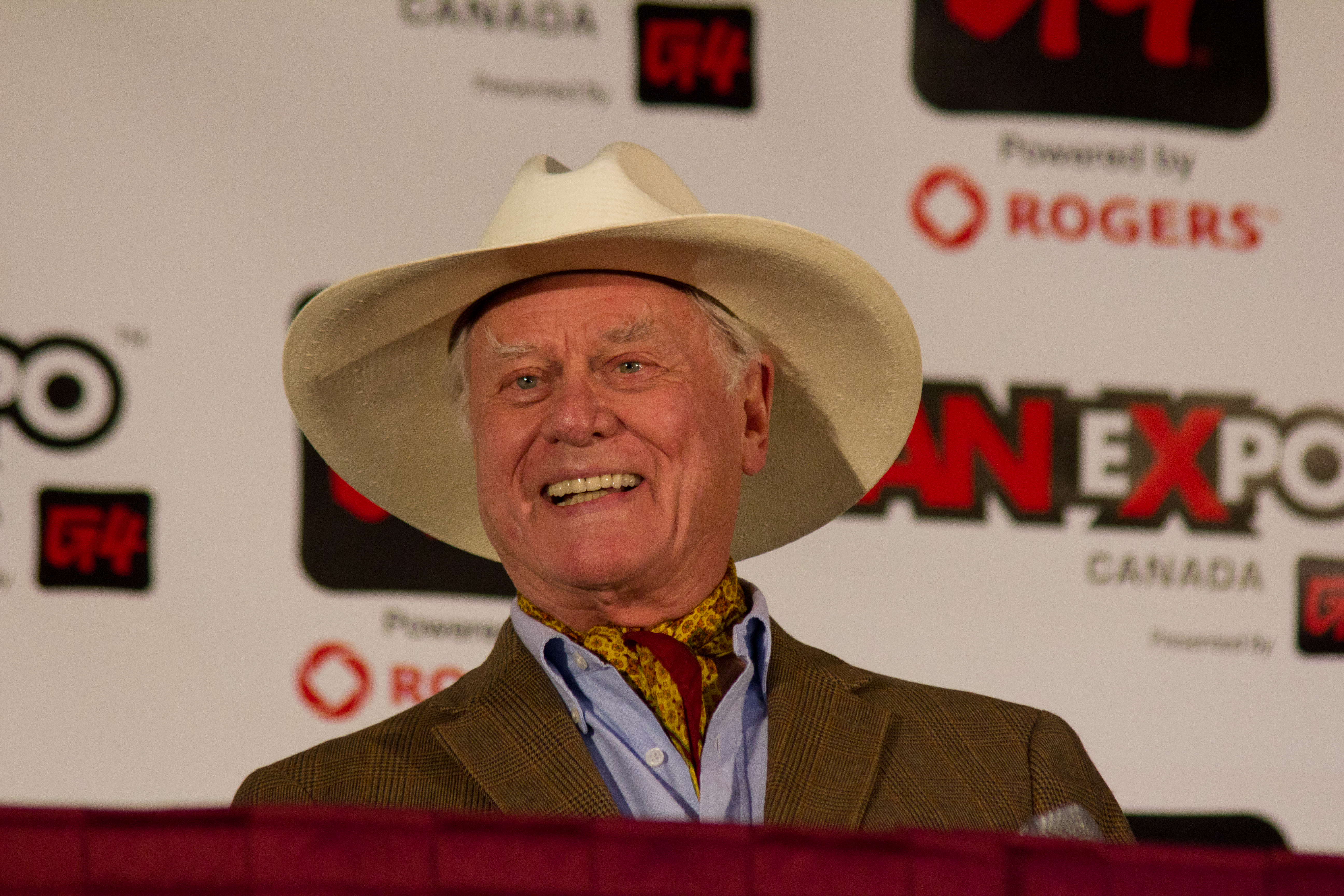 Larry Hagman at Fan Expo in Toronto, 27th August 2011